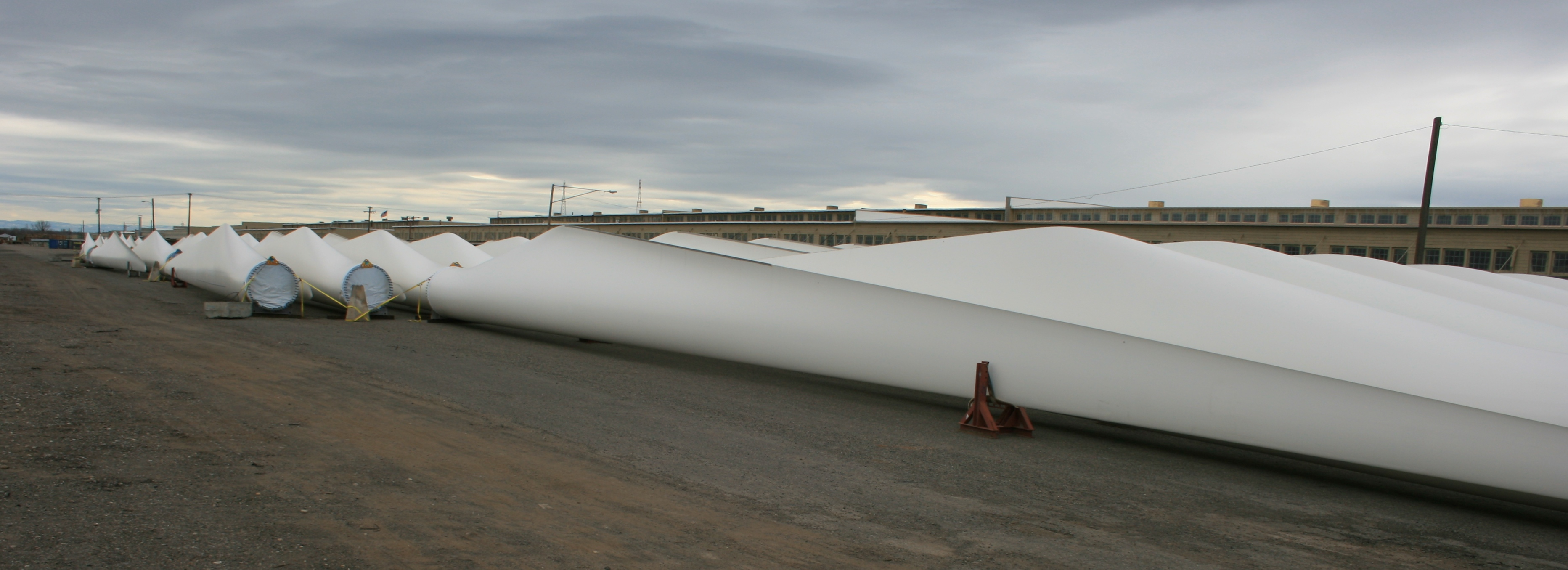 Wind Turbine Blades in laydown yard in Pasco, Washington in 2009. Photo taken by uploader - all rights released.